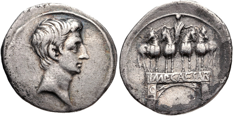 Octavian. Autumn 30-summer 29 BC. AR Denarius (20mm, 3.47 g, 1h). Italian (Rome?) mint. Bare head right Octavian’s Actian arch (arcus Actianus): single-span arch surmounted by Octavian in facing quadriga; IMP • CAESAR across architrave. RIC I 267; CRI 422; RSC 123. From the Collection of Professor L. Fontana.